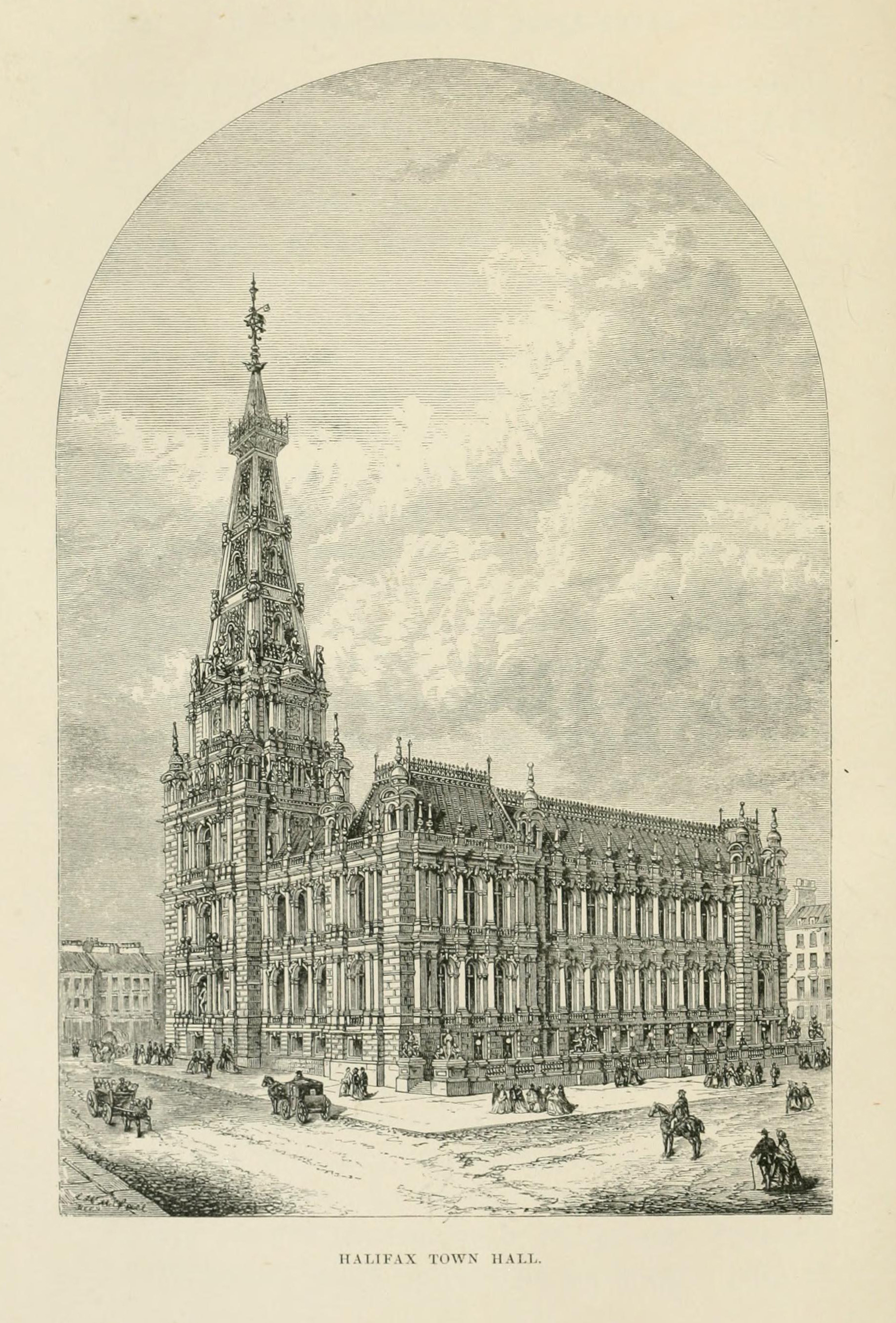 Halifax town hall